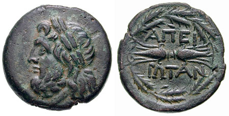 Epeiros, Epeirote Republic, c. 234-168 BC Laureate head of Zeus left / APEI-ROTAN & thunderbolt within oak wreath